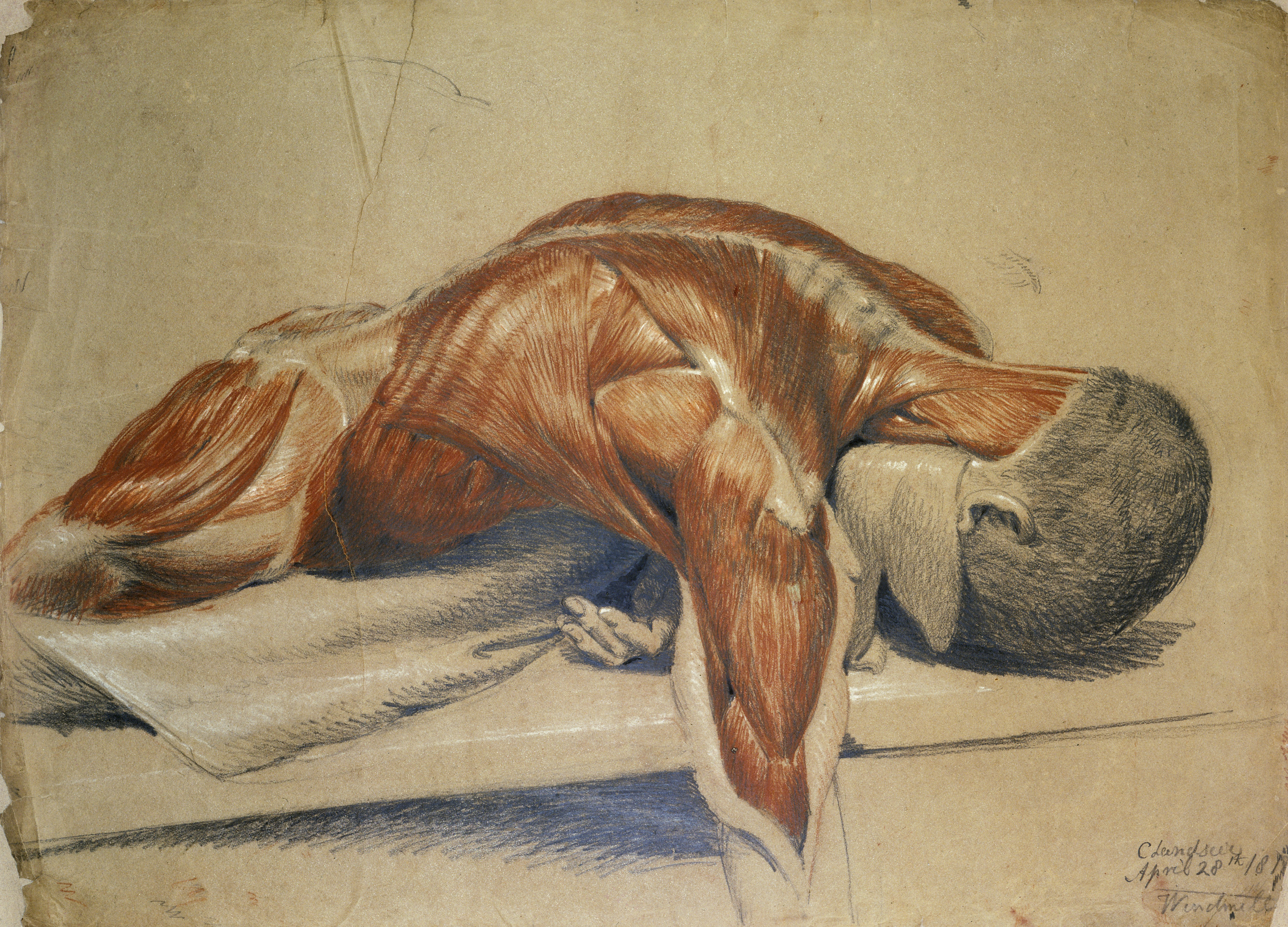 An écorché figure (life-size), lying prone on a table: the right arm hangs down below the table. Red chalk and pencil drawing, with bodycolour, by C. Landseer, 1813 (?). Iconographic Collections Keywords: Charles Landseer; Charles Landseer